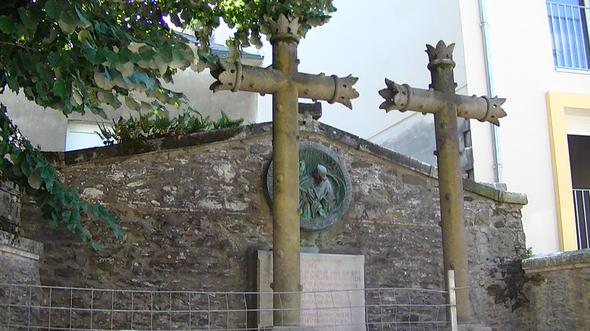 Two crosses dedicated to Sts. Donatian and Rogatian, at the site where they were traditionally held to have been martyred, Rue Dufour, near the Basilica of Donatien et Rogatien, Nantes